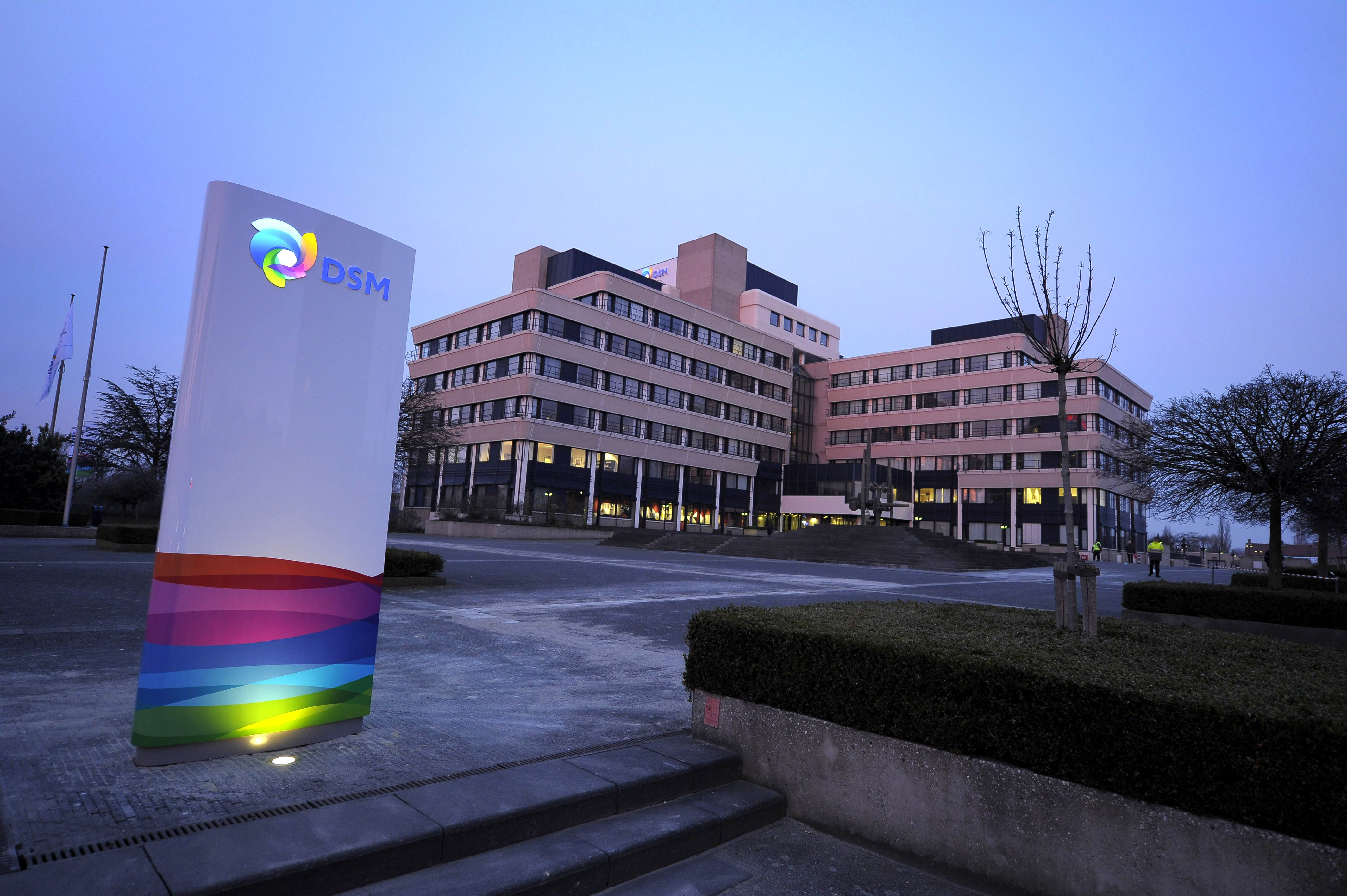 The headquarters of Koninklijke DSM N.V. (Royal DSM N.V.) situated at Het Overloon 1, 6411 TE Heerlen, the Netherlands.